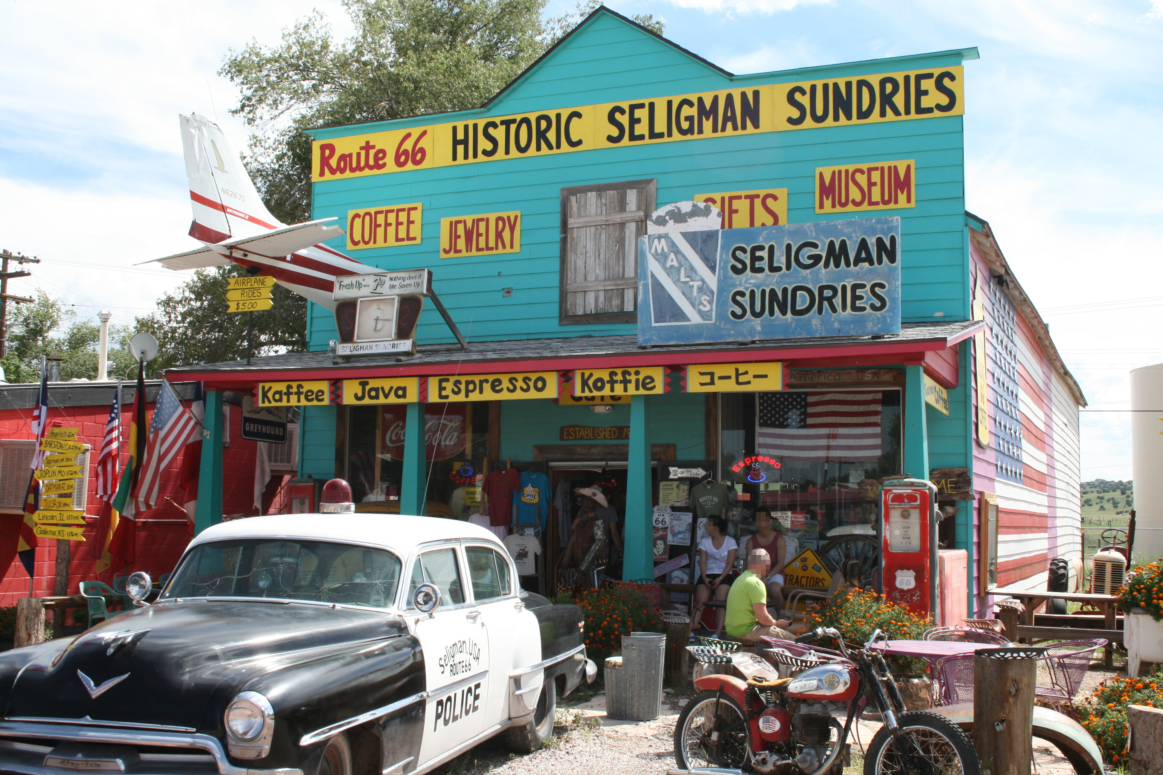 Historic Seligman Sundries building along former US Highway 66, Seligman, Arizona, USA.